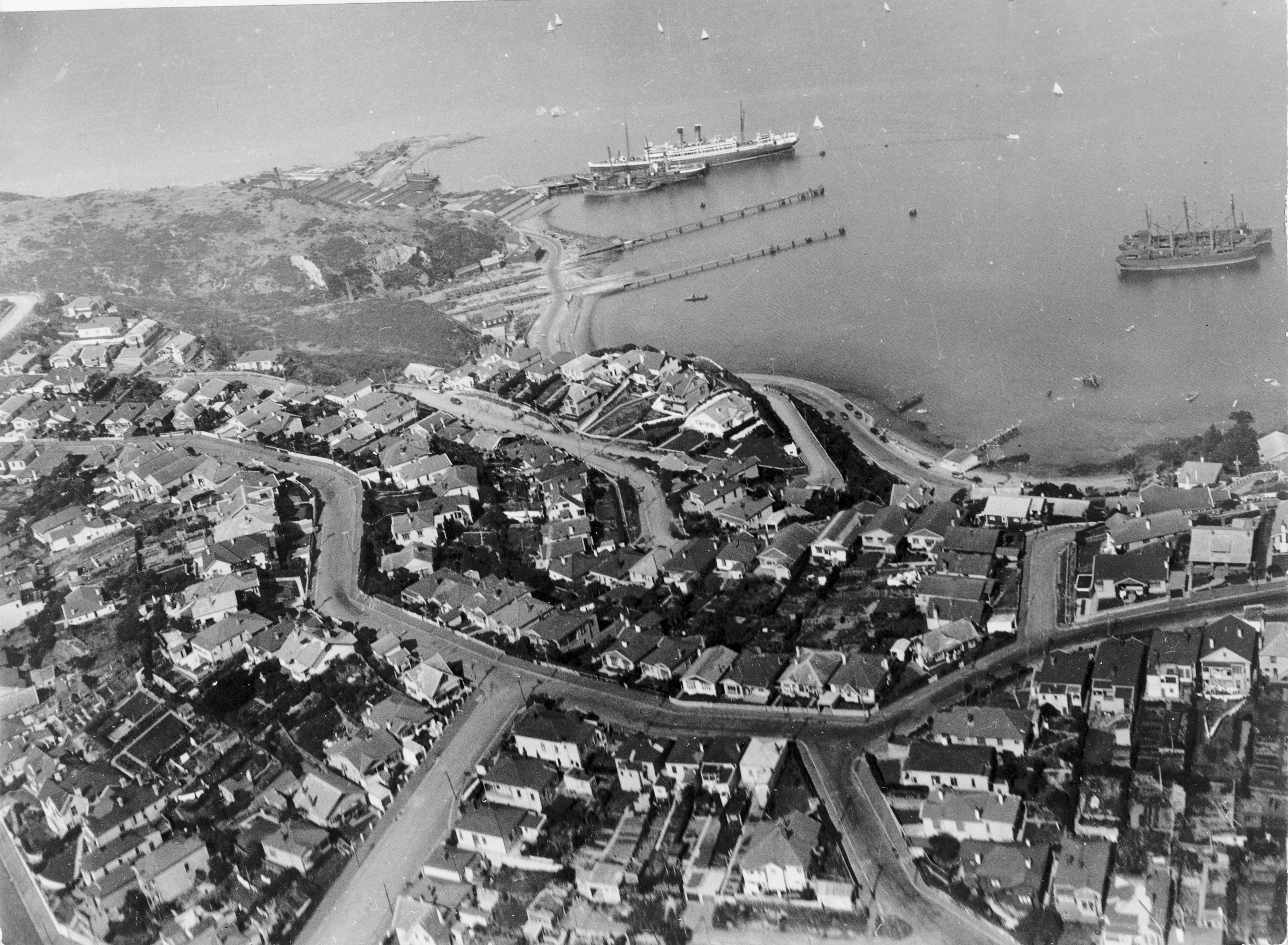 Aerial view over Evans Bay, Wellington, ca 1930s Reference Number: 1/2-091635-F Photographer: William Hall Raine Film negative Photographic Archive, Alexander Turnbull Library from the